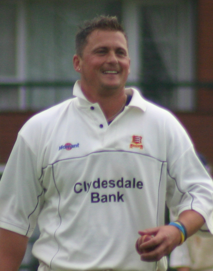 britisch cricket player